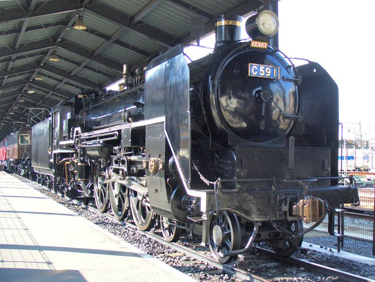 C59 1 steam locomotive in Kyushu Railway History Museum.